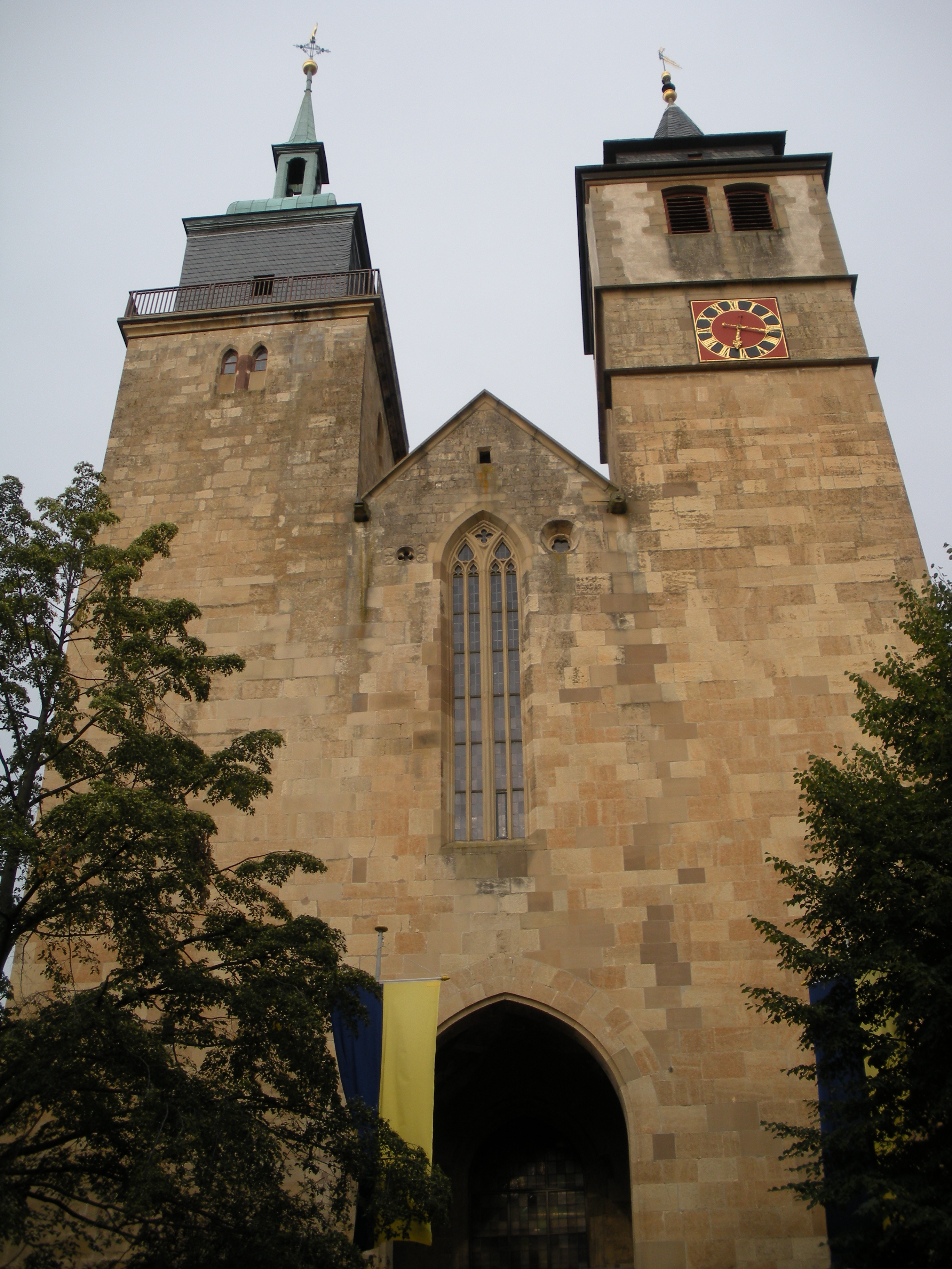 Protestant Church of Bartholomae in Markgröningen